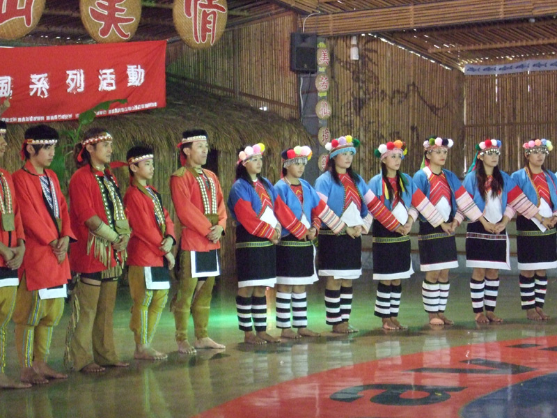 Traditional dancing performance of Tsou people in Taiwan.